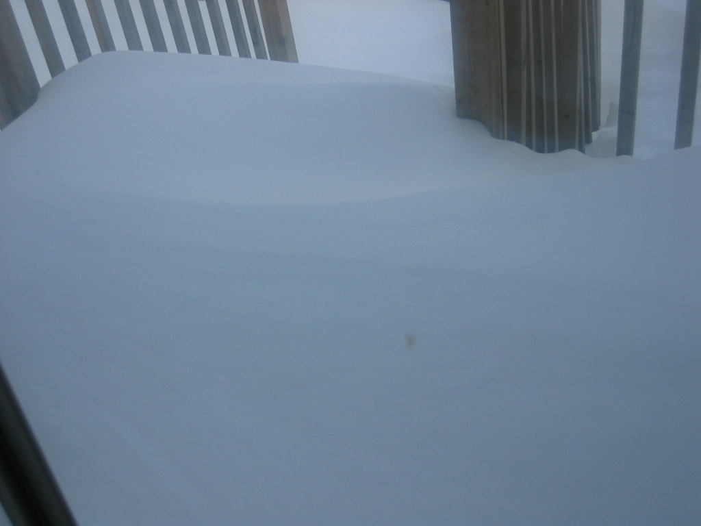 Original description at Wikipedia: "Pile of snow outside front door during December snowstorm in Southern Ontario."